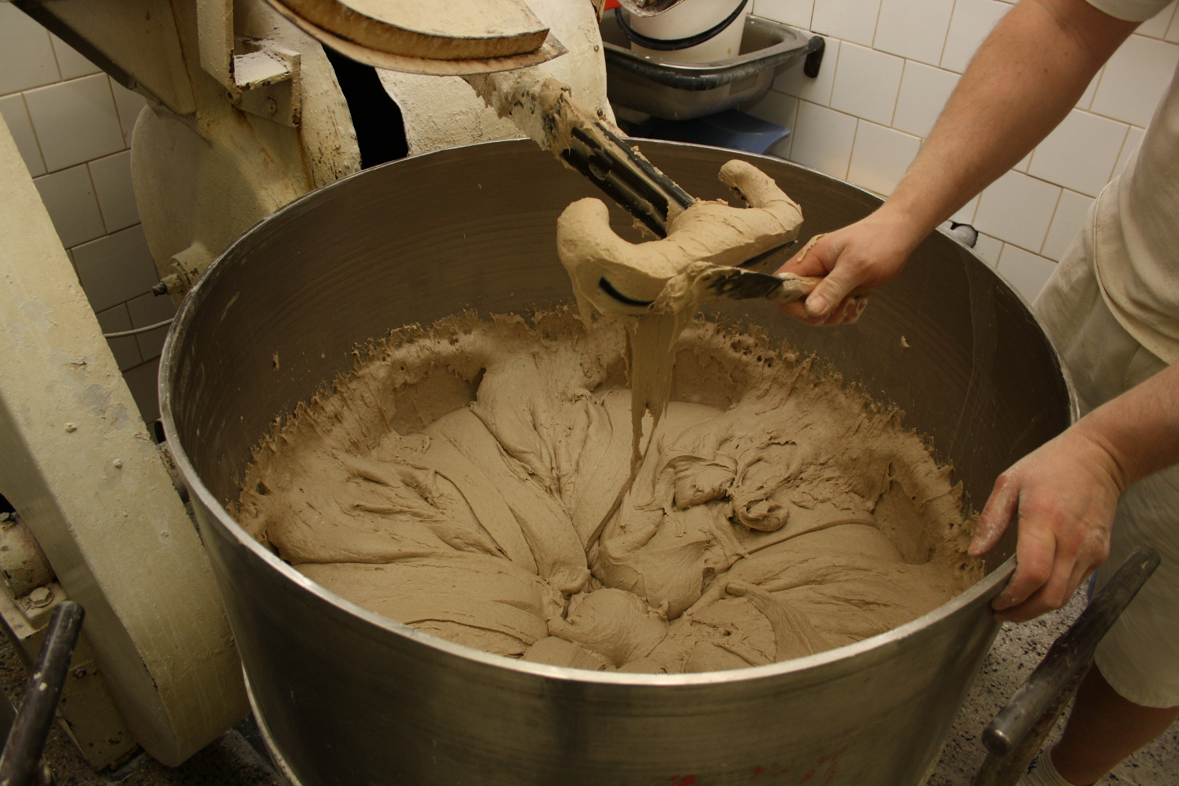 Production process of bread, Czech Republic This photograph was taken with a DSLR from WMCZ's Camera grant. This picture was taken and/or got within the scope of the 'Acquiring scientific and specialized pictures' grant.